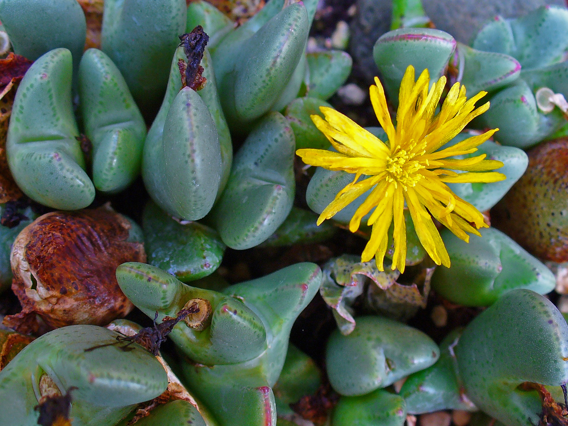 Conophytum obscurum, Aizoaceae, flower; Botanical Garden KIT, Karlsruhe, Germany.